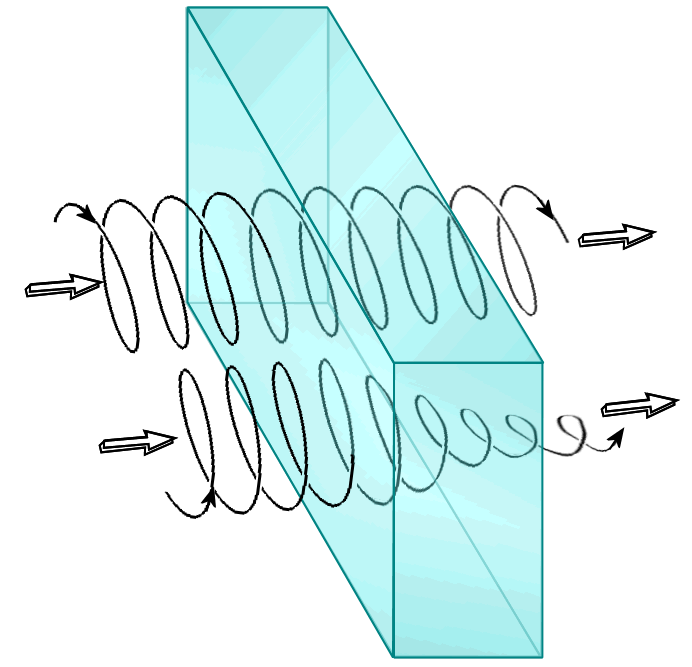 Effect of a circular dichroism on a left- or right-handed circularly polarized wave. Made by fffred.